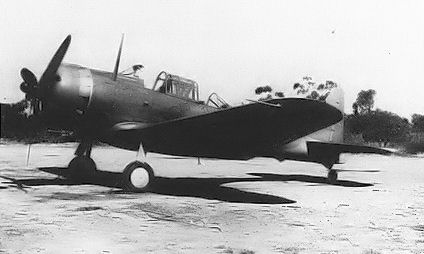 Unidentified 1941 serial Douglas A-24-DE Banshee (Dauntless) Dive Bomber, ex 27th Bombardment Group, reassigned to the 8th Bombardment Squadron of the 3rd Bombardment Group, 1942. Source: USAAF photo taken at 3d Bomb Group, Australia.